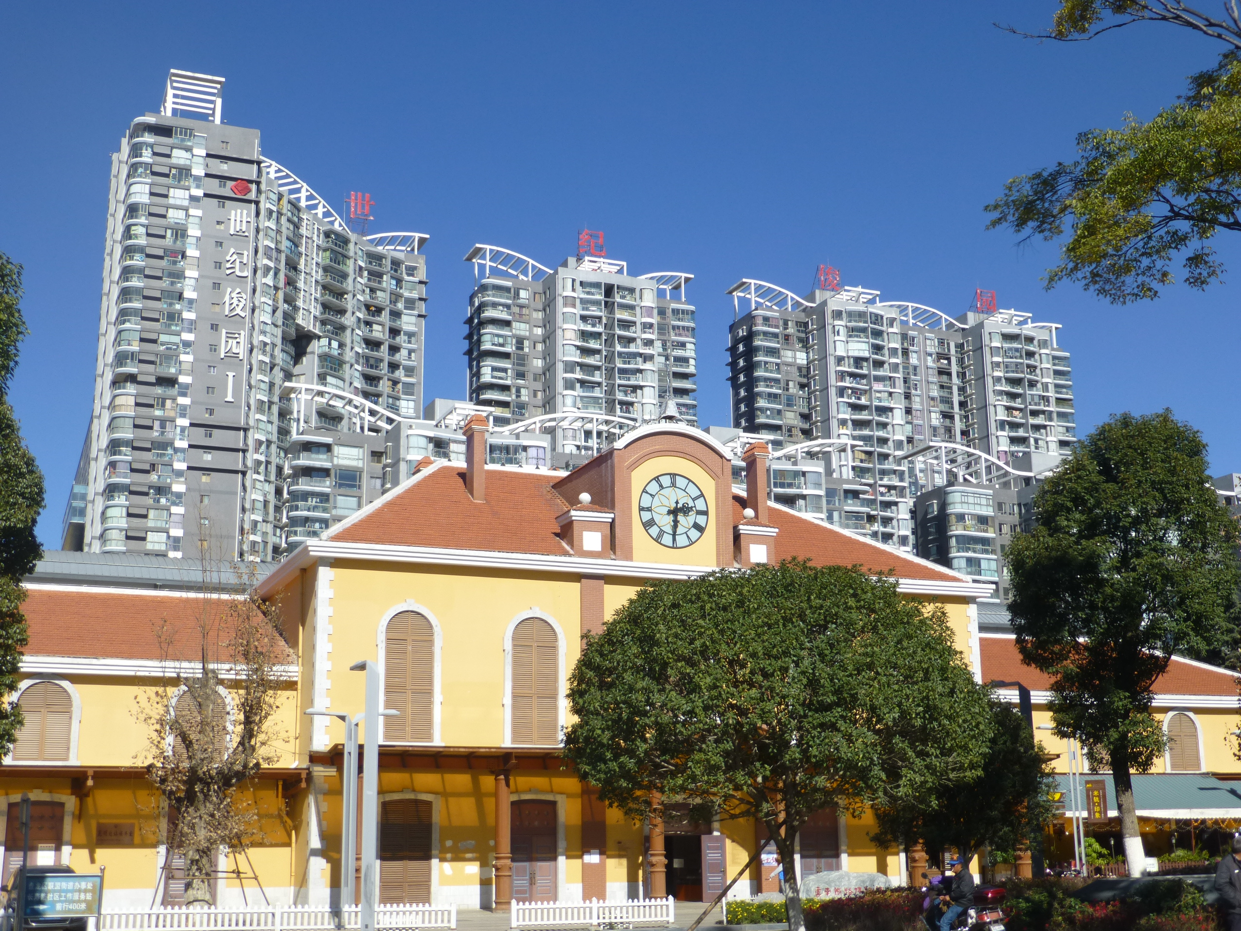 An outside view of Kunming North Railway Station (the Yunnan Railway Museum)